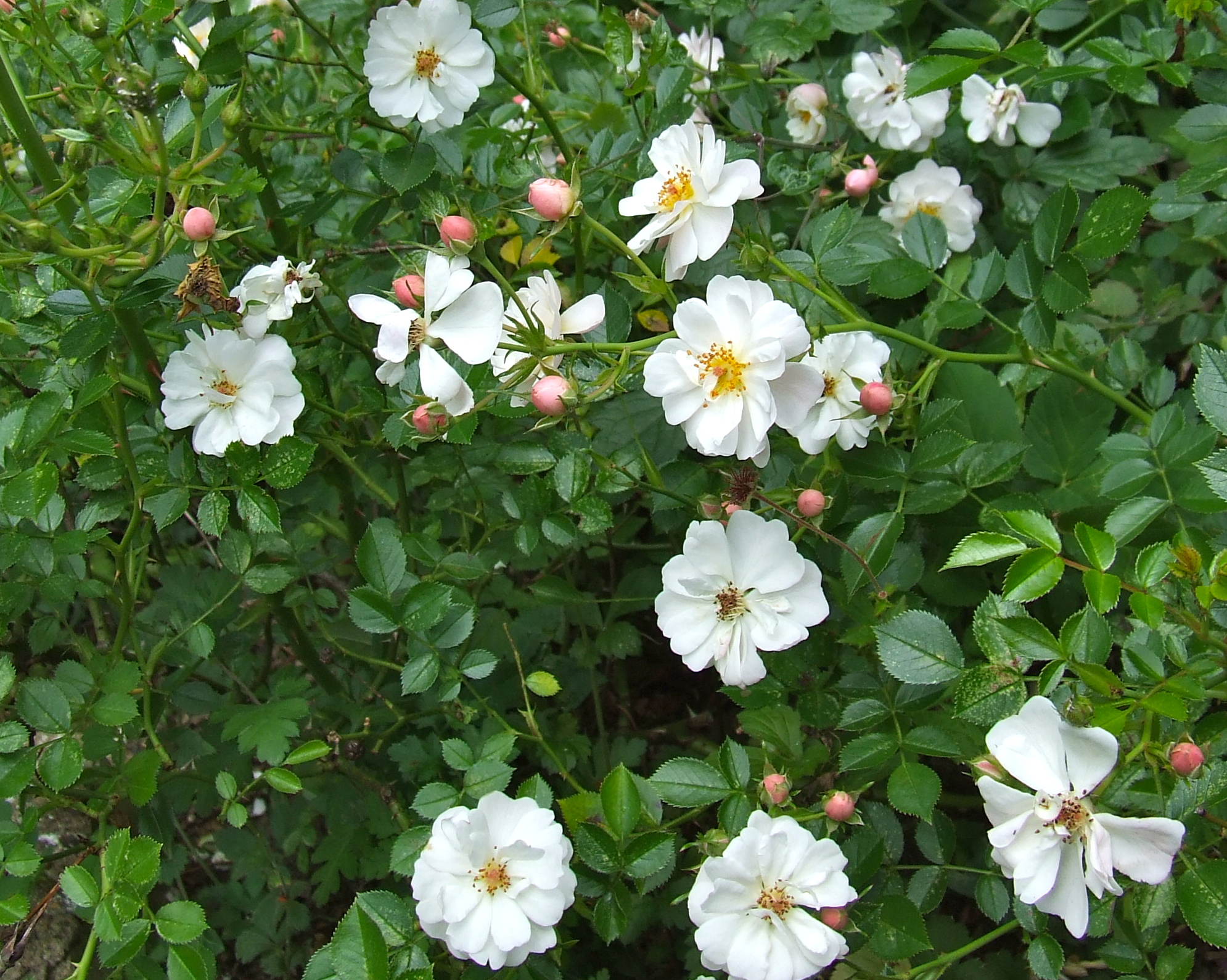 Avon ground cover (landscape) rose, introduced by Poulson in 1992. Also known as Niagara.